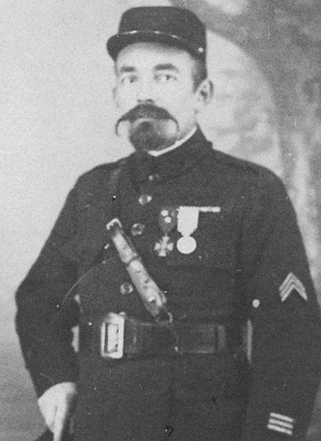 The military chaplain Jules Chaperon after the First World War in 1919, in La Martre, Var, France